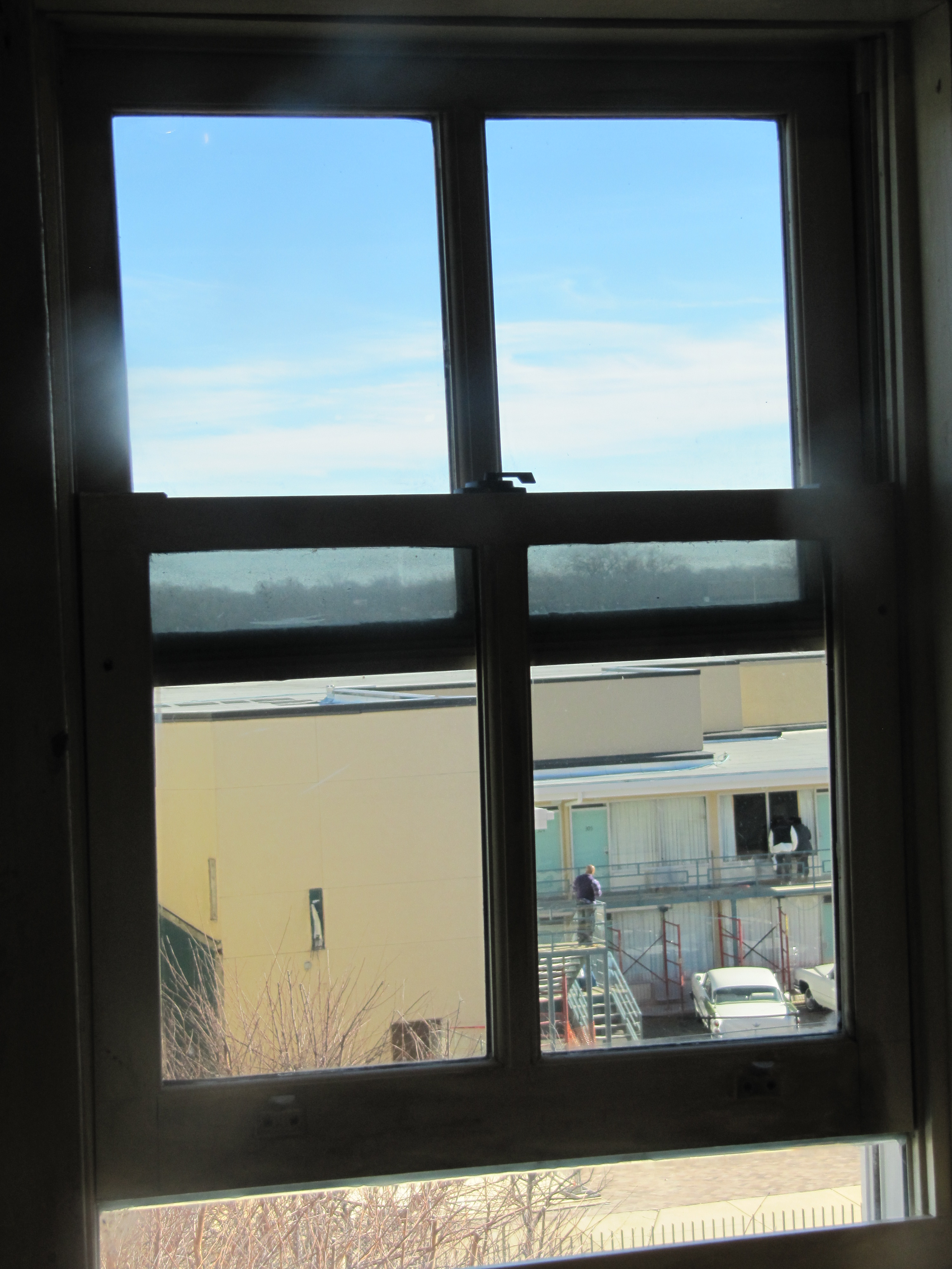 View of Lorraine Hotel, from second floor bathroom window in the boarding house from where James Earl Ray was alleged to have fired the fatal shot at Martin Luther King, Jr.